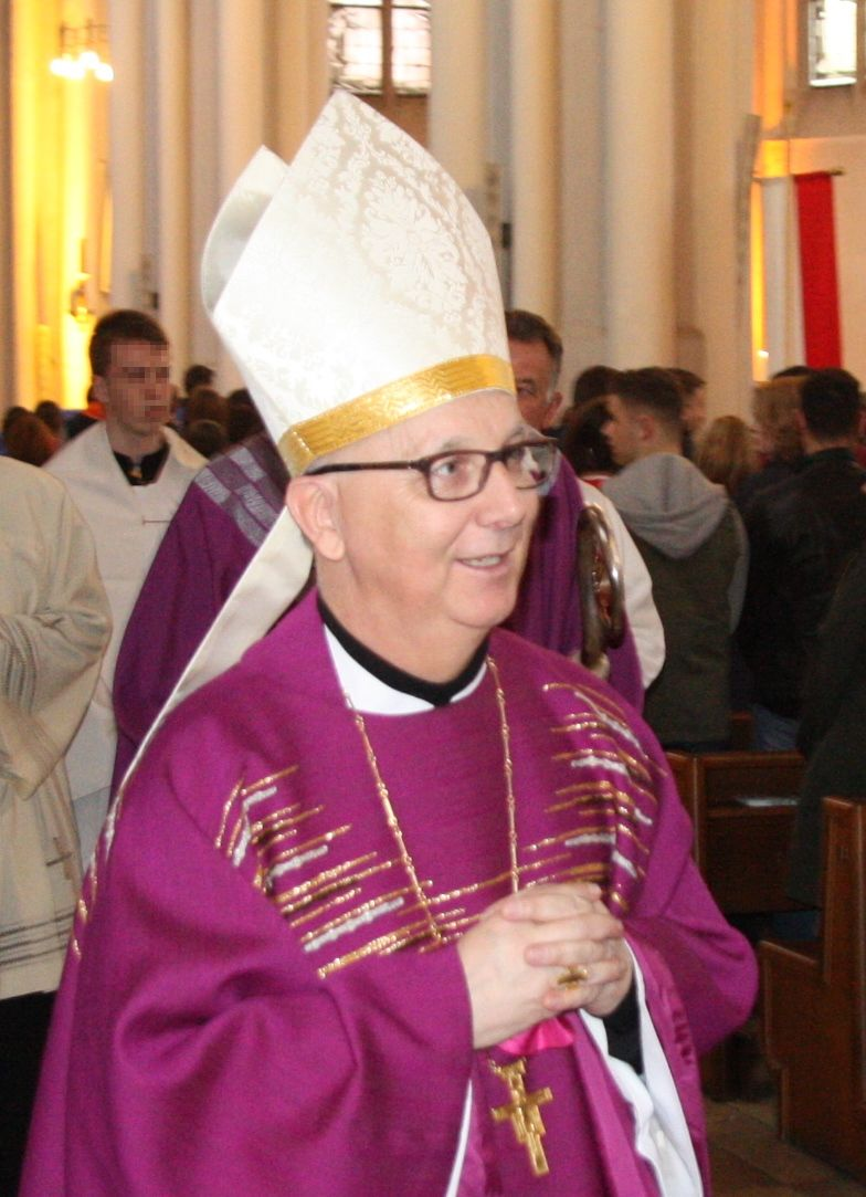 Bishop Marian Eleganti at World Youth Day celebration, Berlin-Schöneberg, St. Matthias